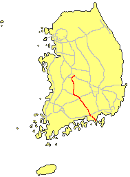 Tongyeong - Daejeon Expressway